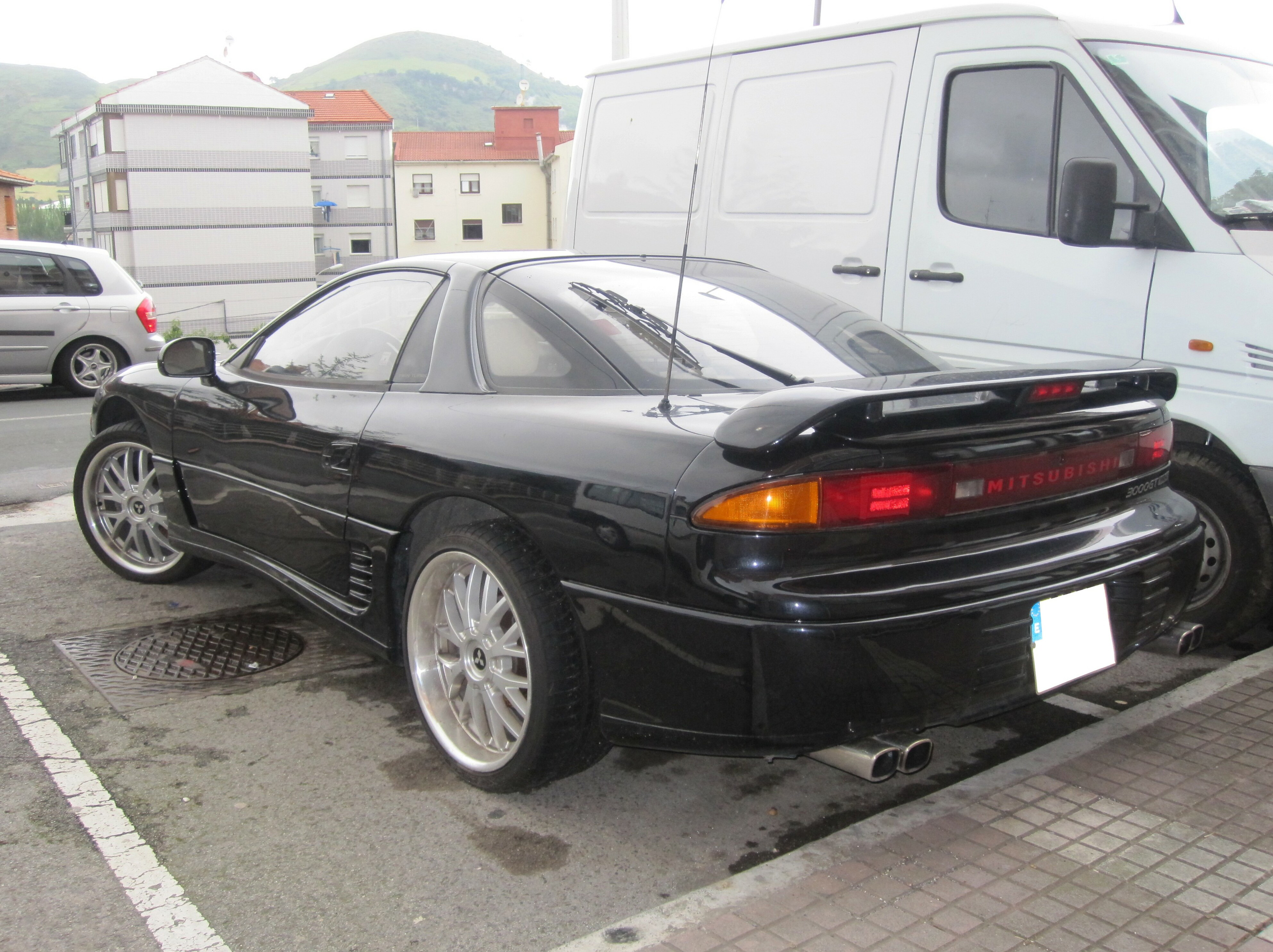 With US specs.